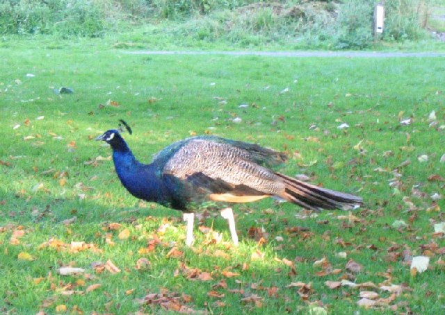 Peacock at Gelli Aur Country Park. Peacocks roam the freely with the visitors. You can also walk through a deer park as well.